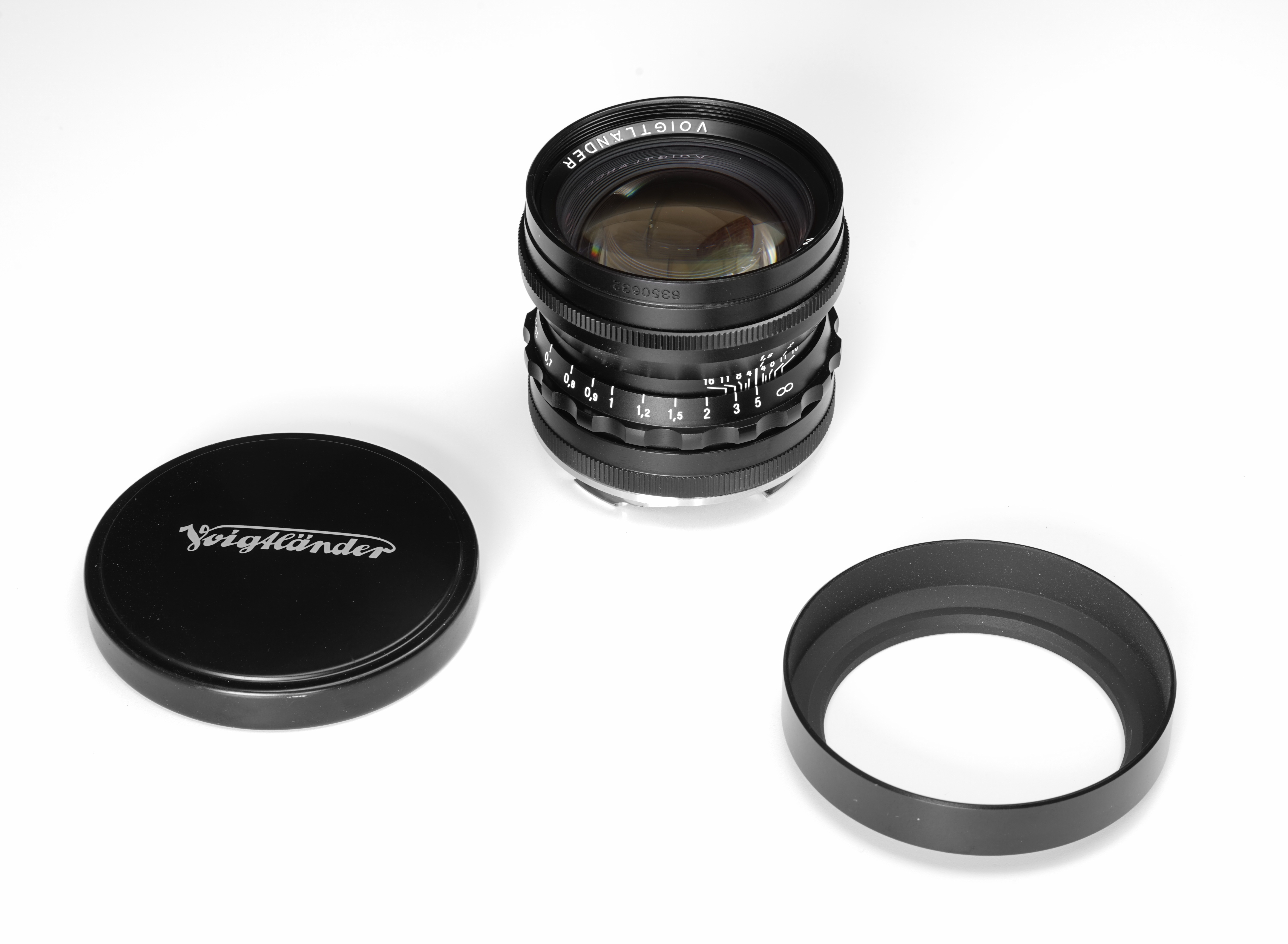 The Voigtländer Nokton 50mm f/1.5 VM lens for the Voigtländer VM mount, shown here with lens hood and lens cap.